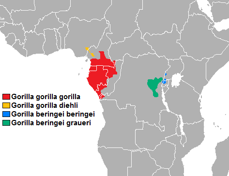 Distribution map of the subspecies of Gorilla.